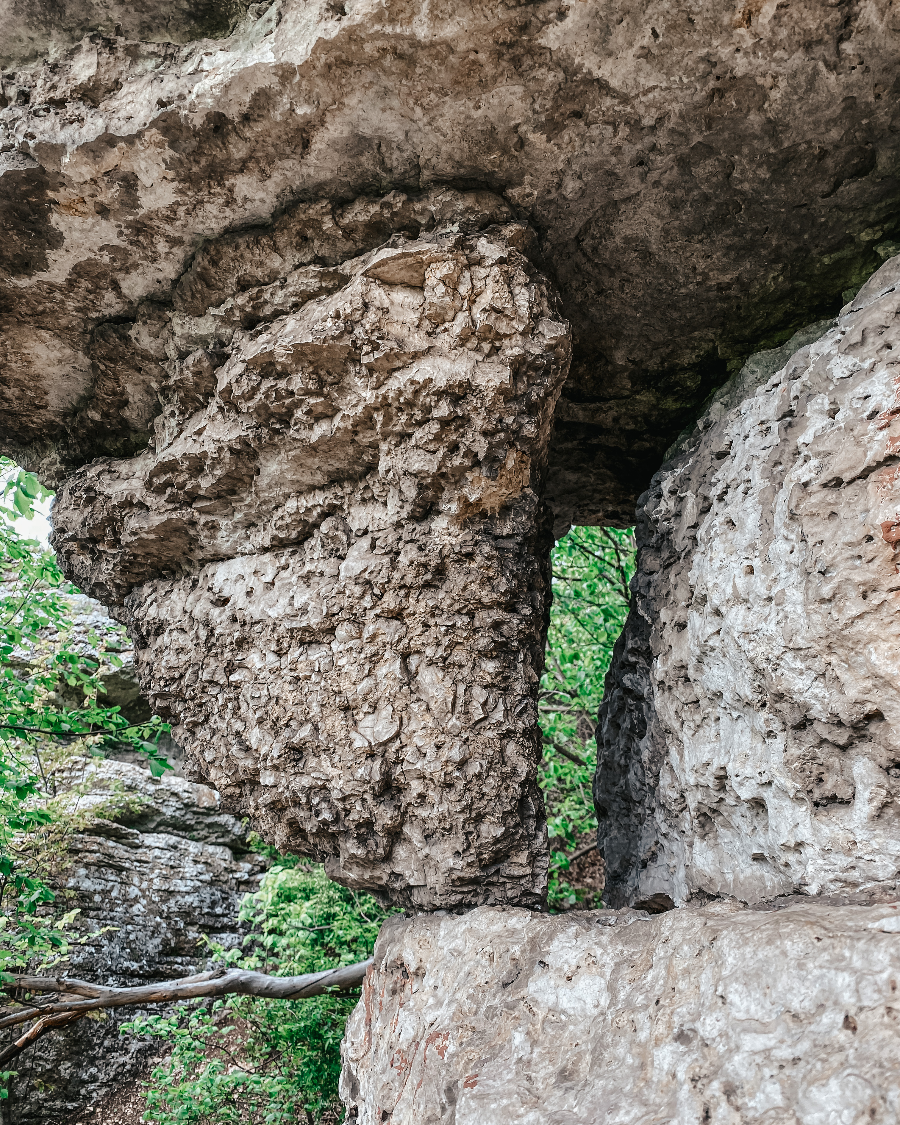 Камни в воргольских скалах